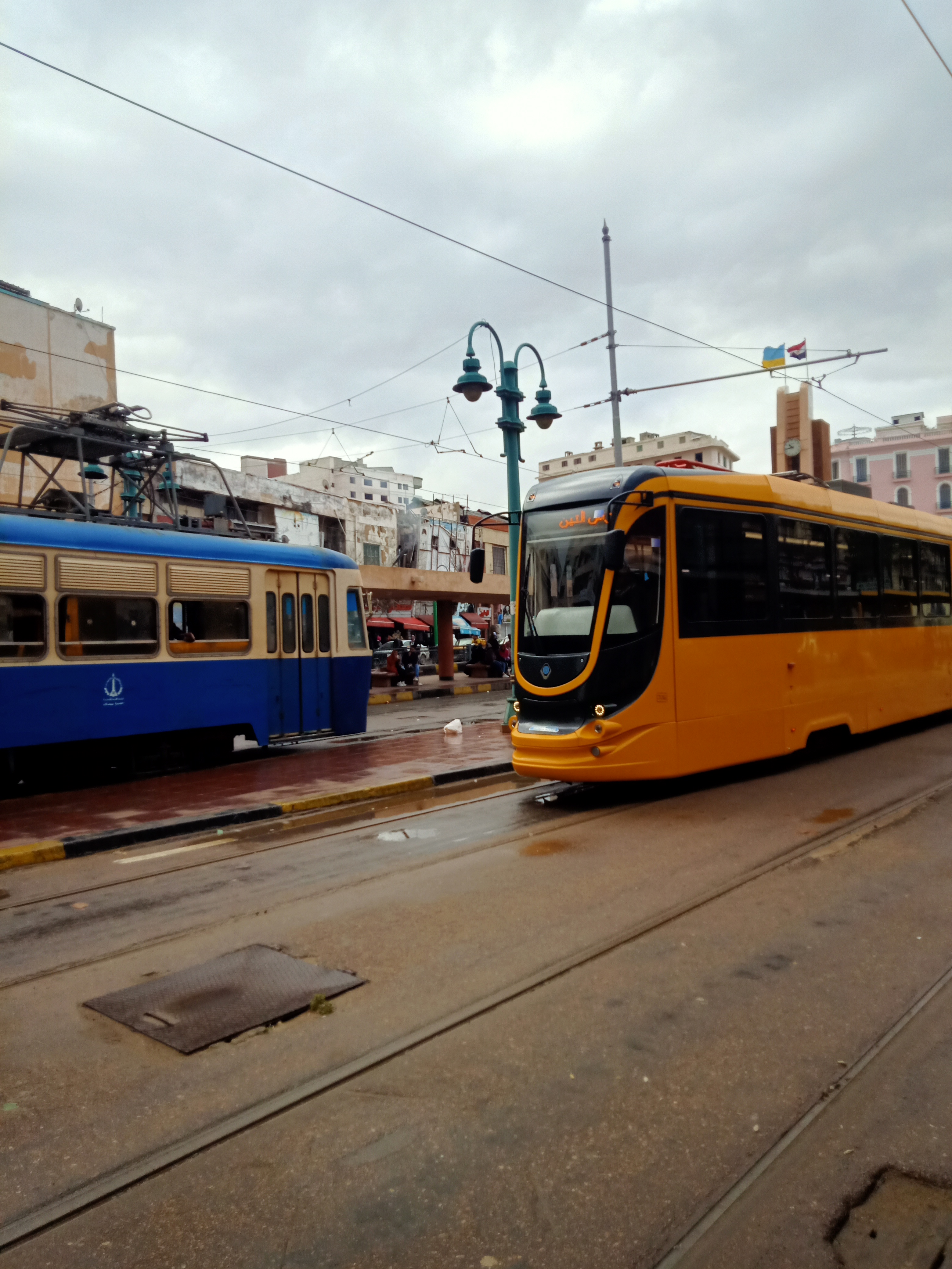 This is an image with the theme "Africa on the Move or Transport" from: Egypt